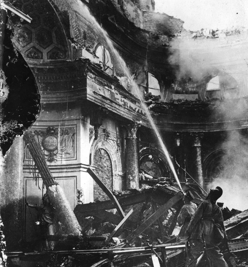 Fire in the Ballroom at the Royal Castle in Warsaw on September 17, 1939 after the severe bombing by the Germans.